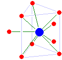 tri-capped prism molecular structure